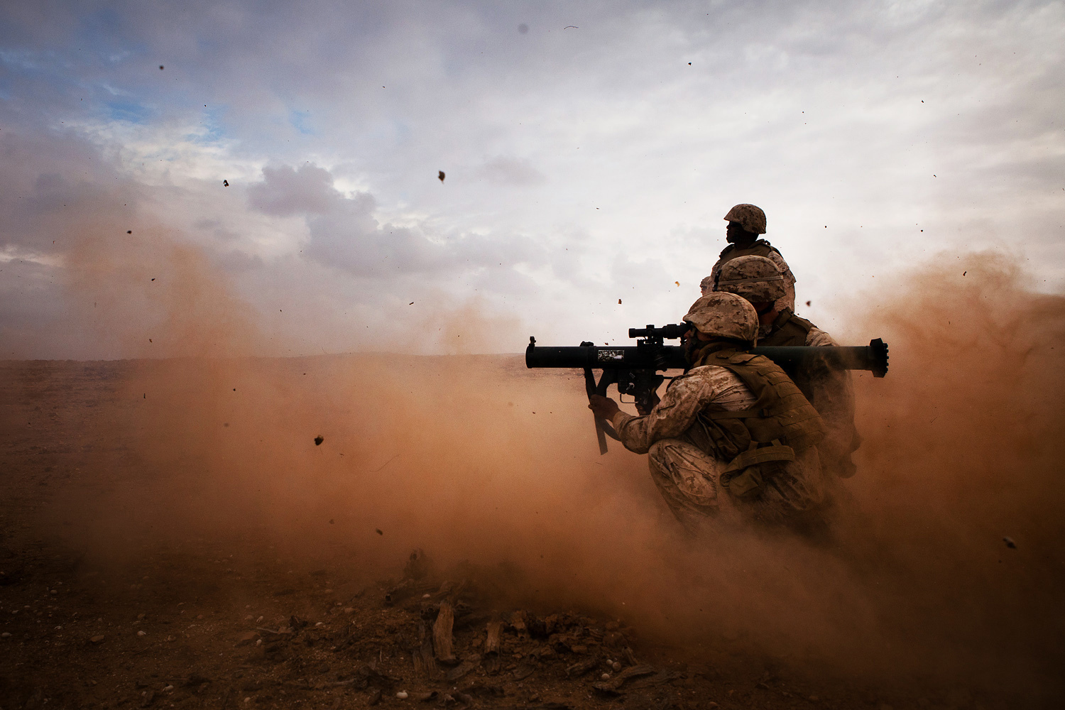 A U.S. Marine with 1st Battalion, 25th Marine Regiment, 4th Marine Division fires a shoulder-launched multipurpose assault weapon during a small-arms live-fire exercise in Cap Draa, Morocco, during exercise African Lion 2012 on April 11, 2012. African Lion is an annually scheduled joint/combined U.S.-Moroccan exercise sponsored by U.S. Africa Command and designed to promote interoperability and mutual understanding of each nation's military tactics, techniques and procedures.